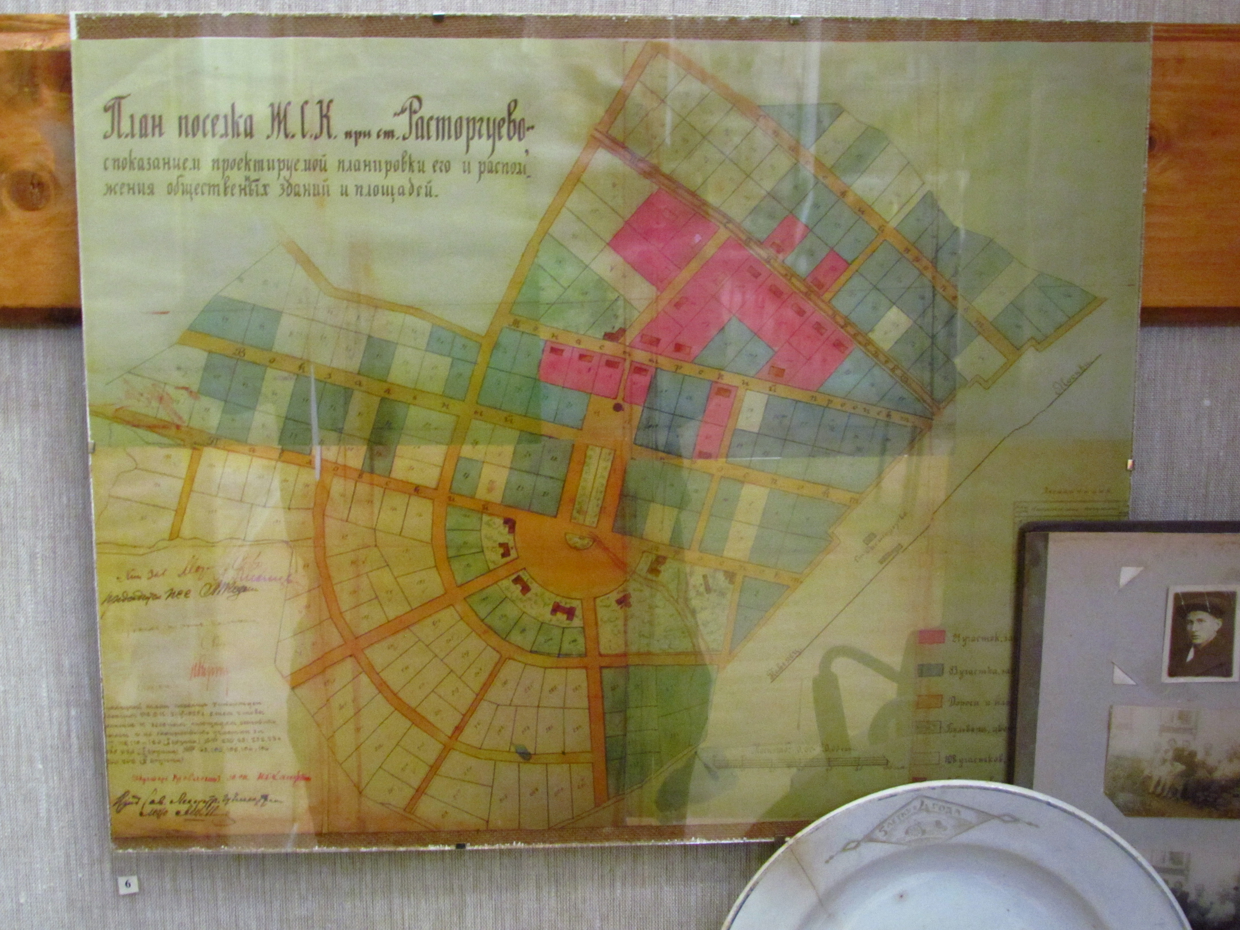 Exposition in Leninskiy District Historical and Cultural Center